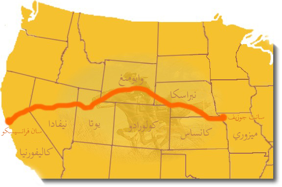 Pony Express map from National Park Service site in Arabic.